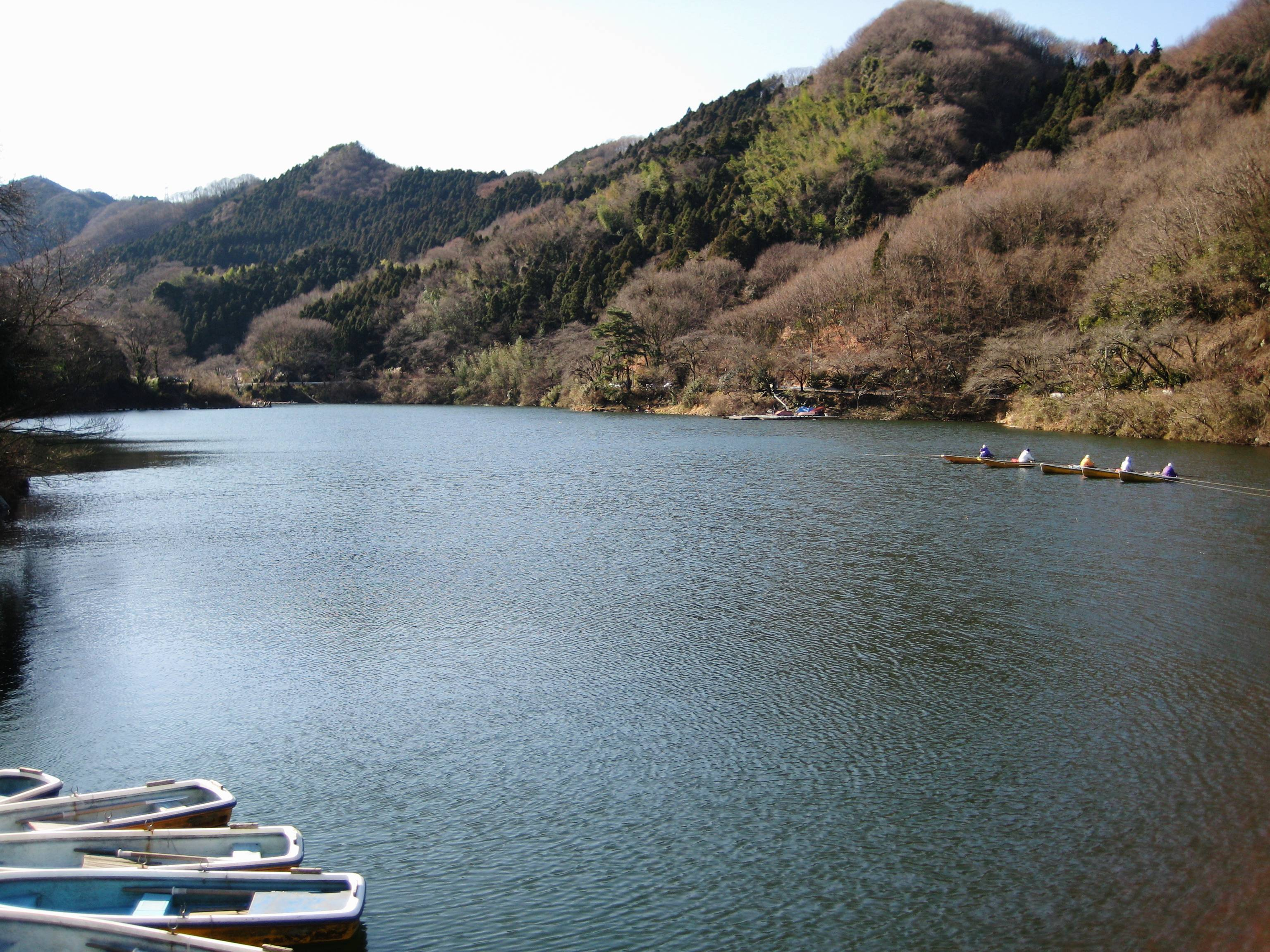 Maze Dam.